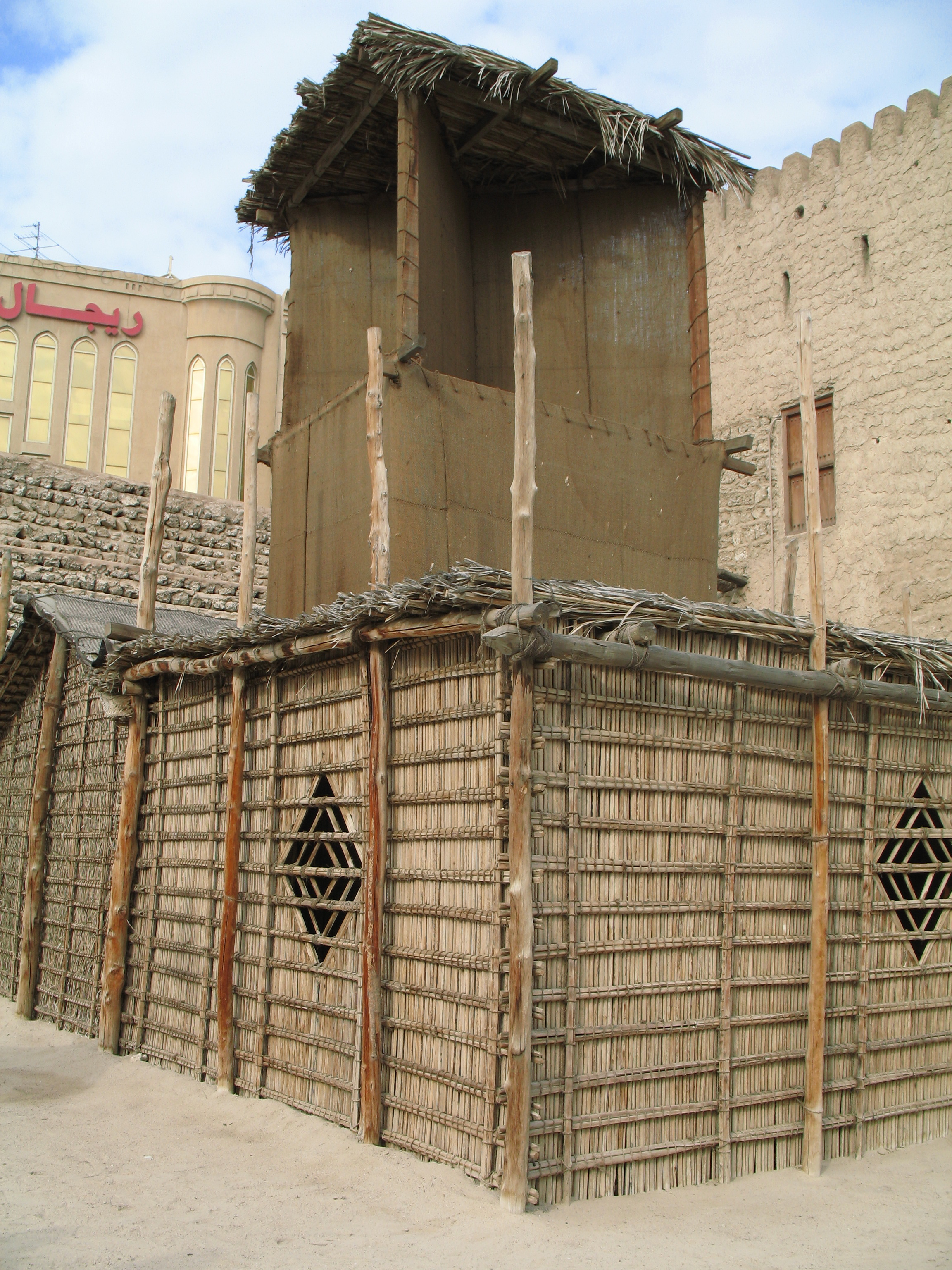 Old-fashioned air-conditioning! The tower catches wind from four directions and channels it down into the house.